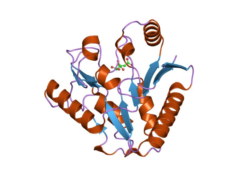 Cartoon representation of the molecular structure of protein registered with 1vl1 code.